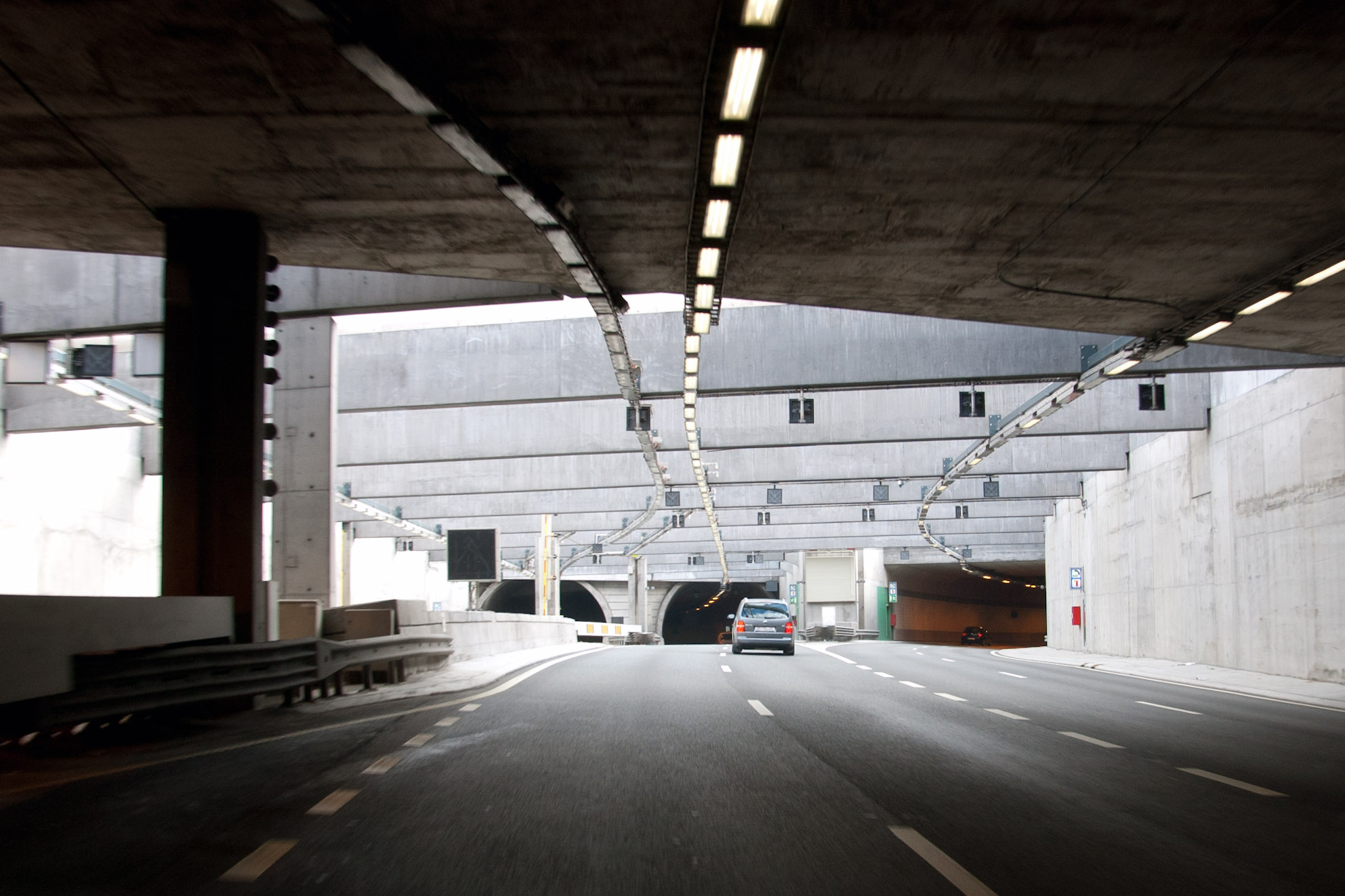 The Ekeberg tunnel seen from the Bjørvika tunnel. Both tunnels are now part of the Opera tunnel in Oslo, Norway.